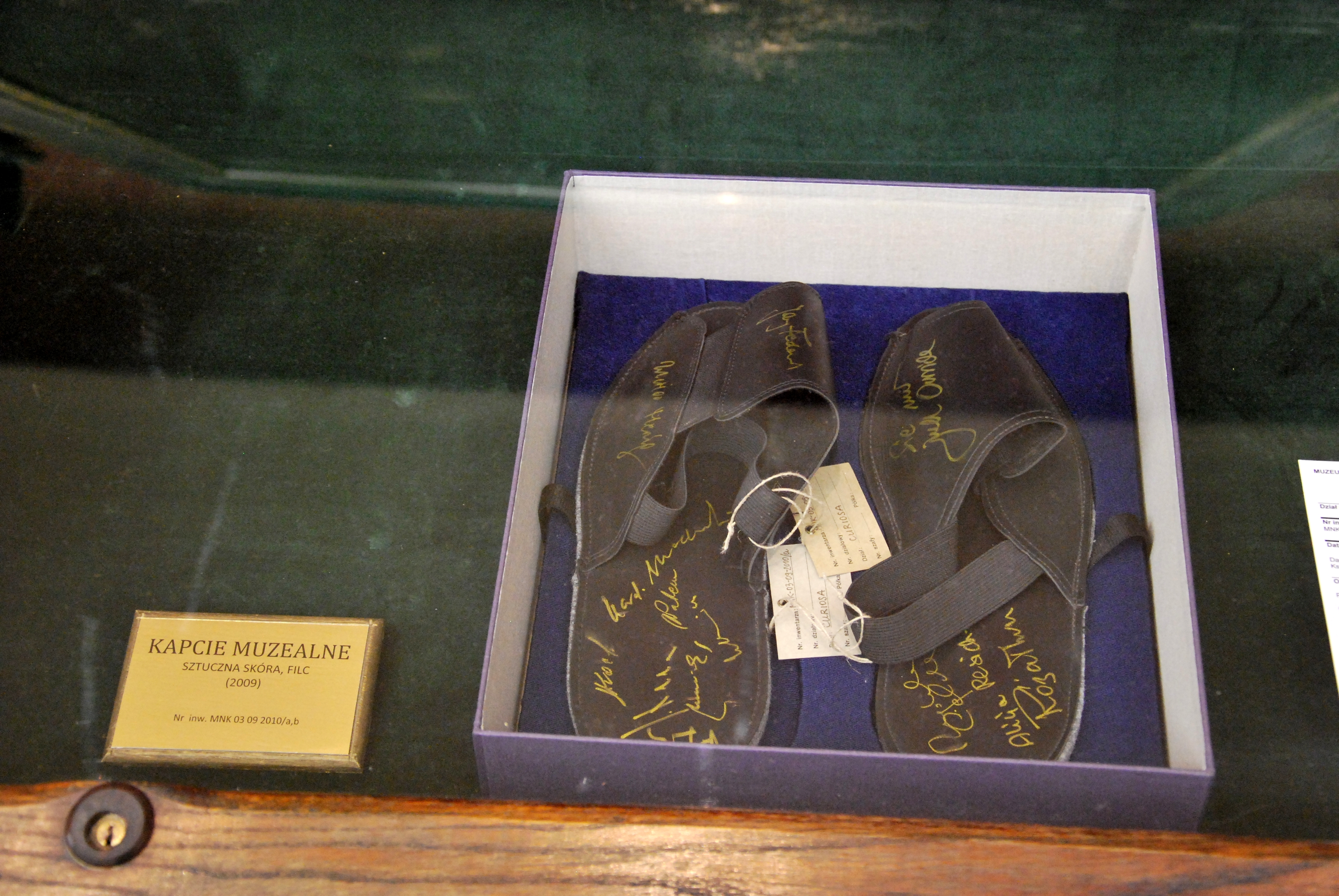 Museal slippers, Kraków Sukiennice Gallery